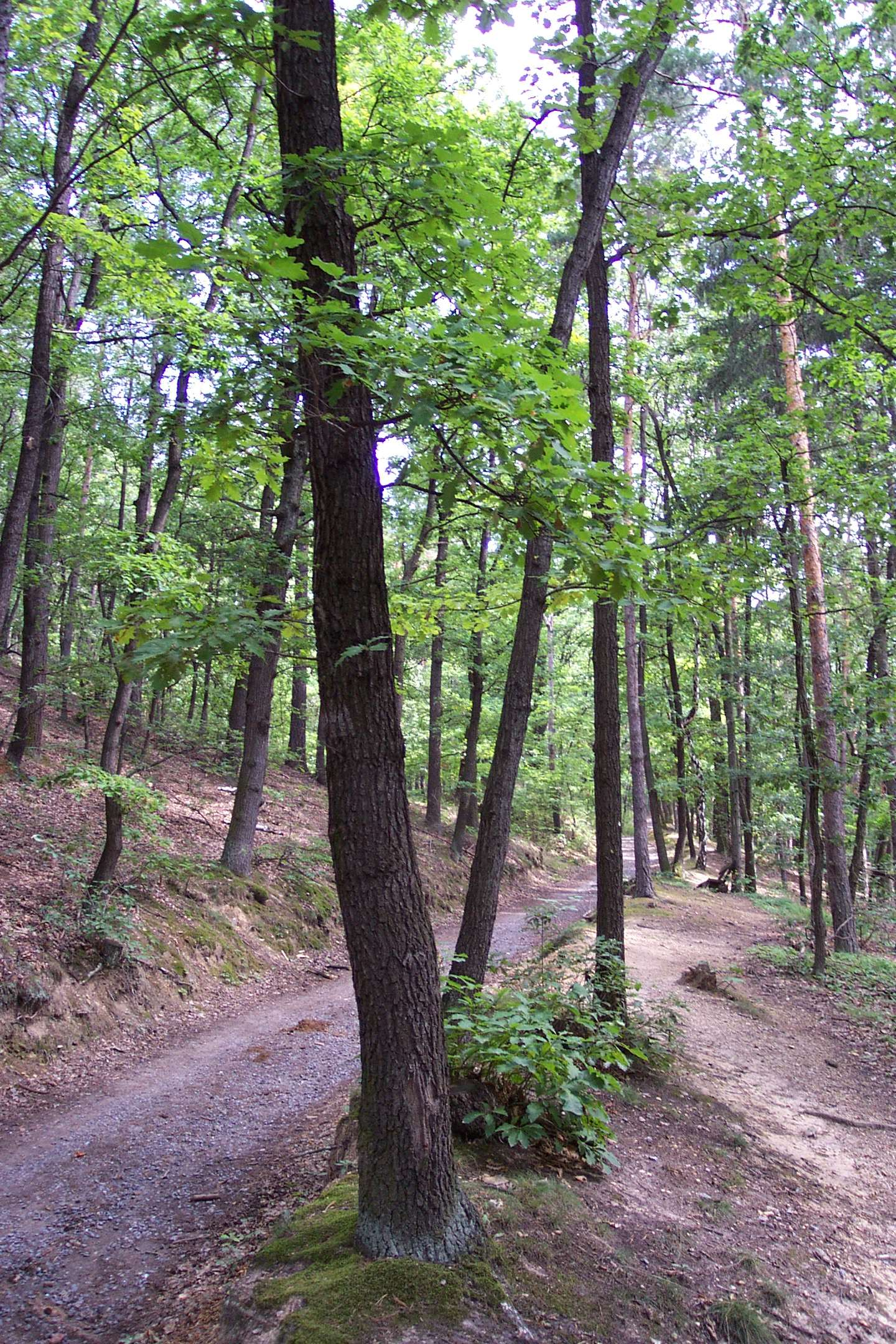 Nebušice, part of Prague, surrounding nature and parks